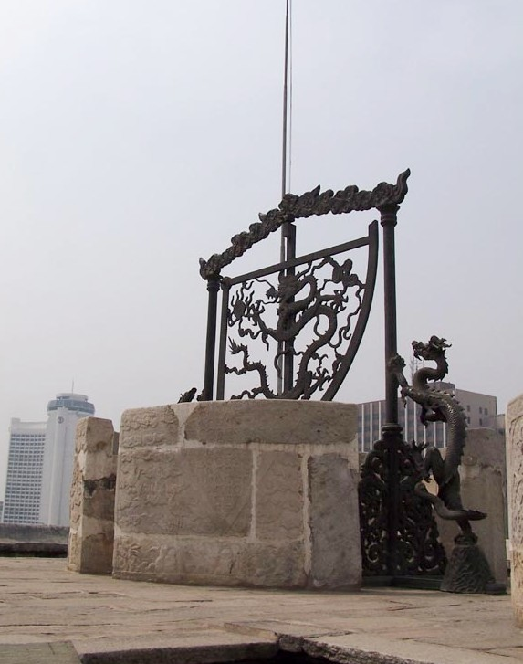 Quadrant Altazimuth in Beijing Ancient Observatory 象限仪（地平纬仪）